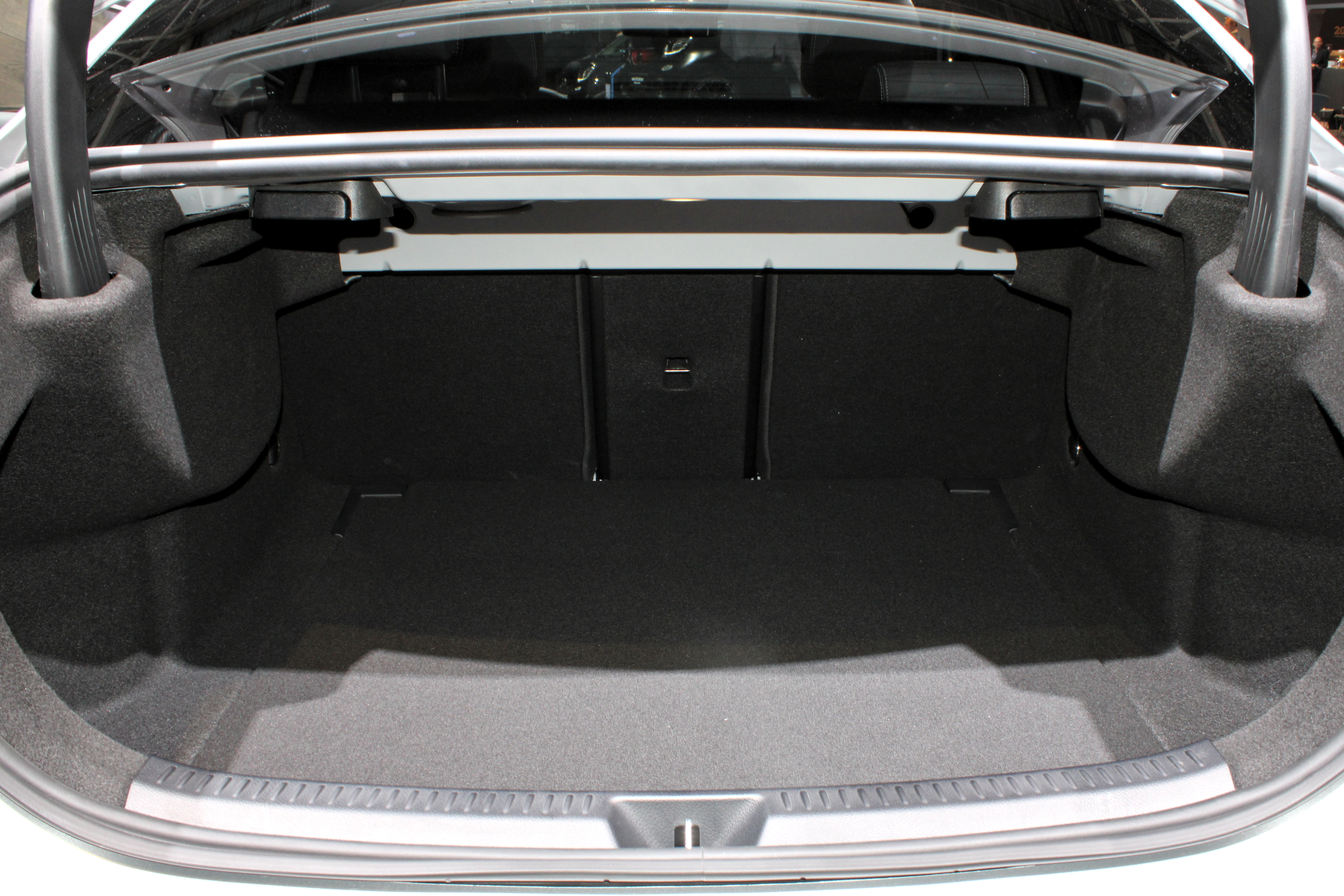 Mercedes-Benz A Sedan at Paris Motor Show 2018